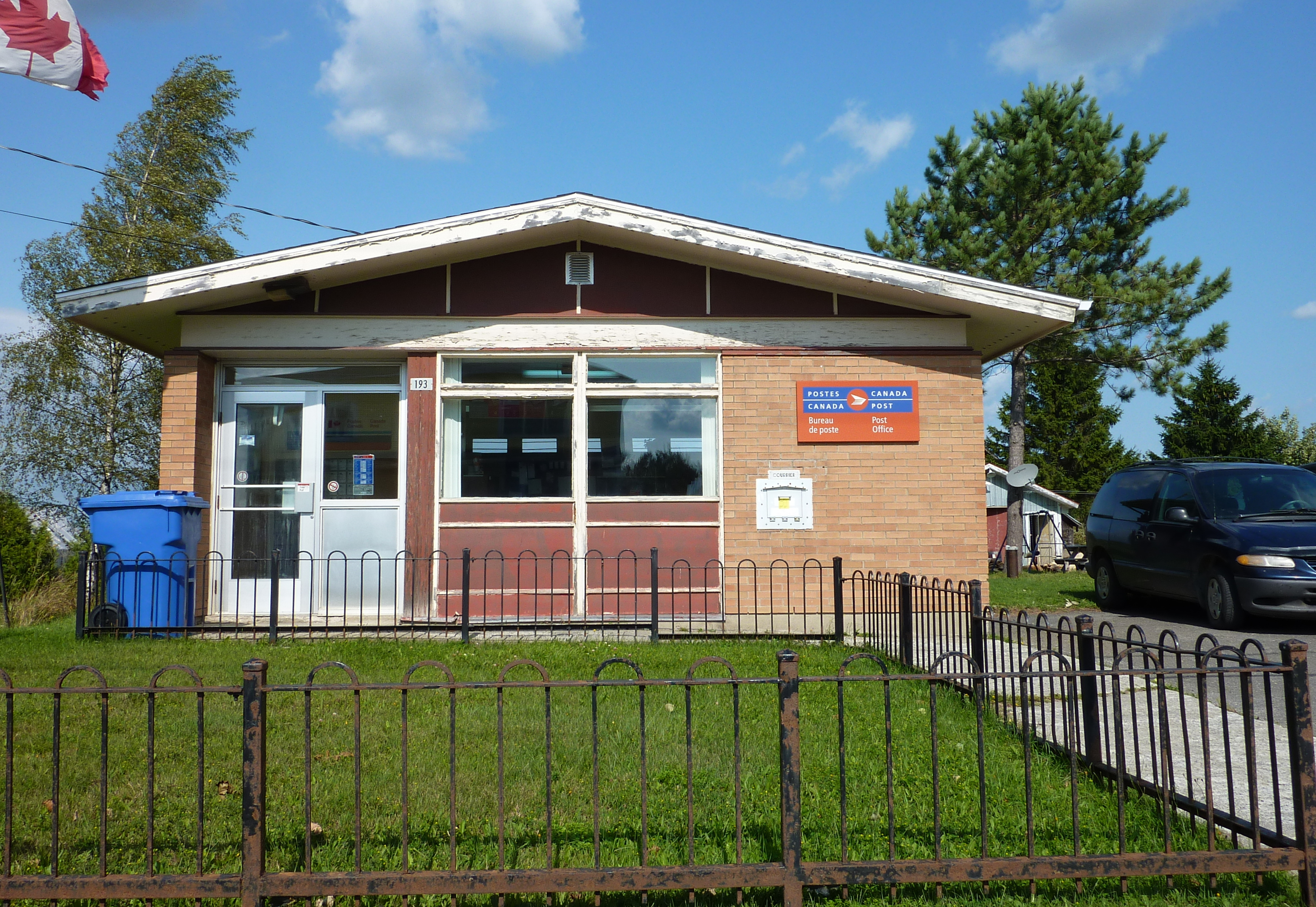 Post office of Sainte-Jeanne-d'Arc, Qc